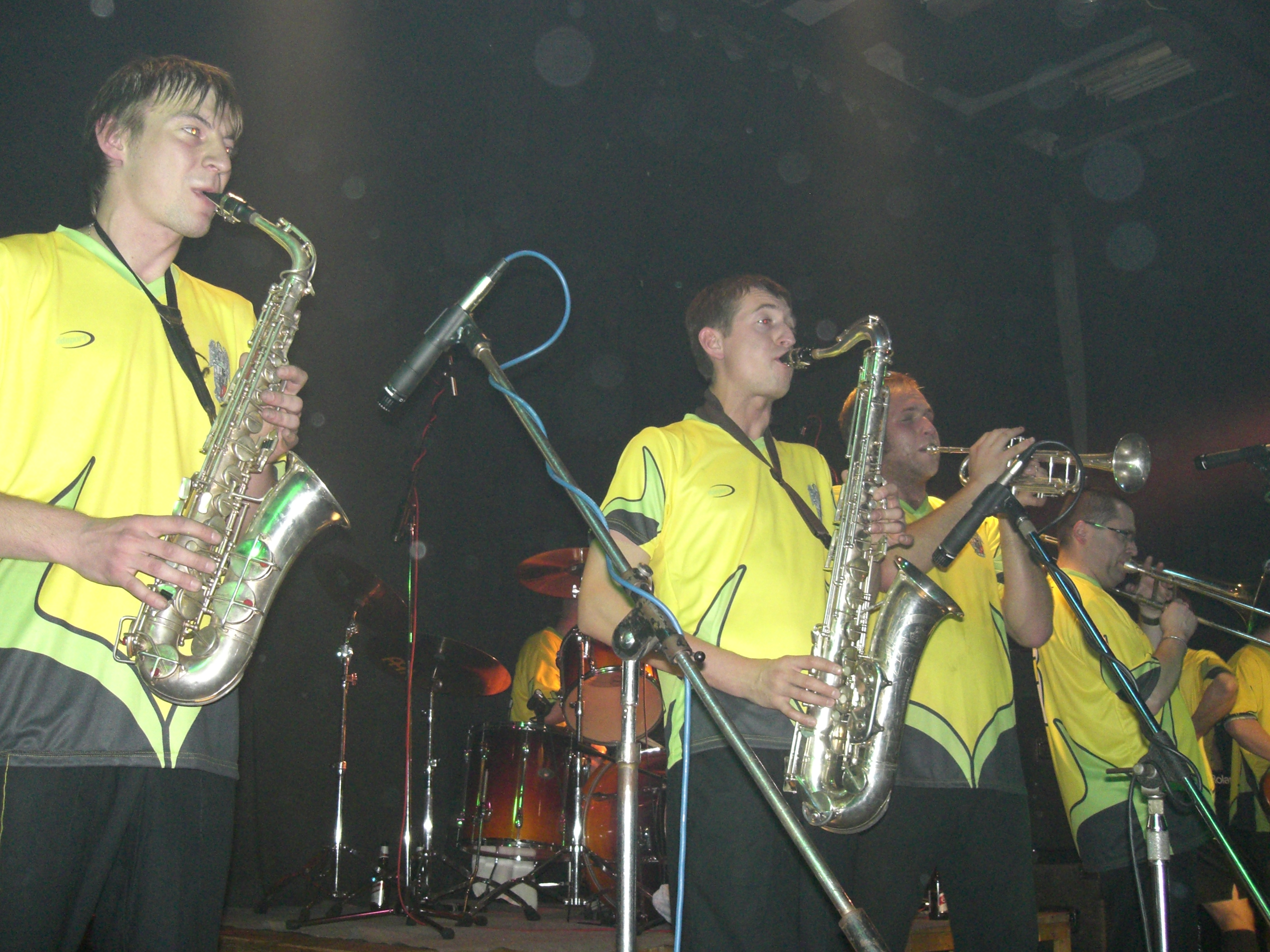 Czech ska mucis group Tleskač in Písek club Divadlo pod Čarou Czech Republic